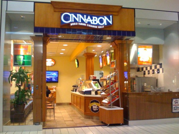 Cinnabon bakery in Tracy, CA